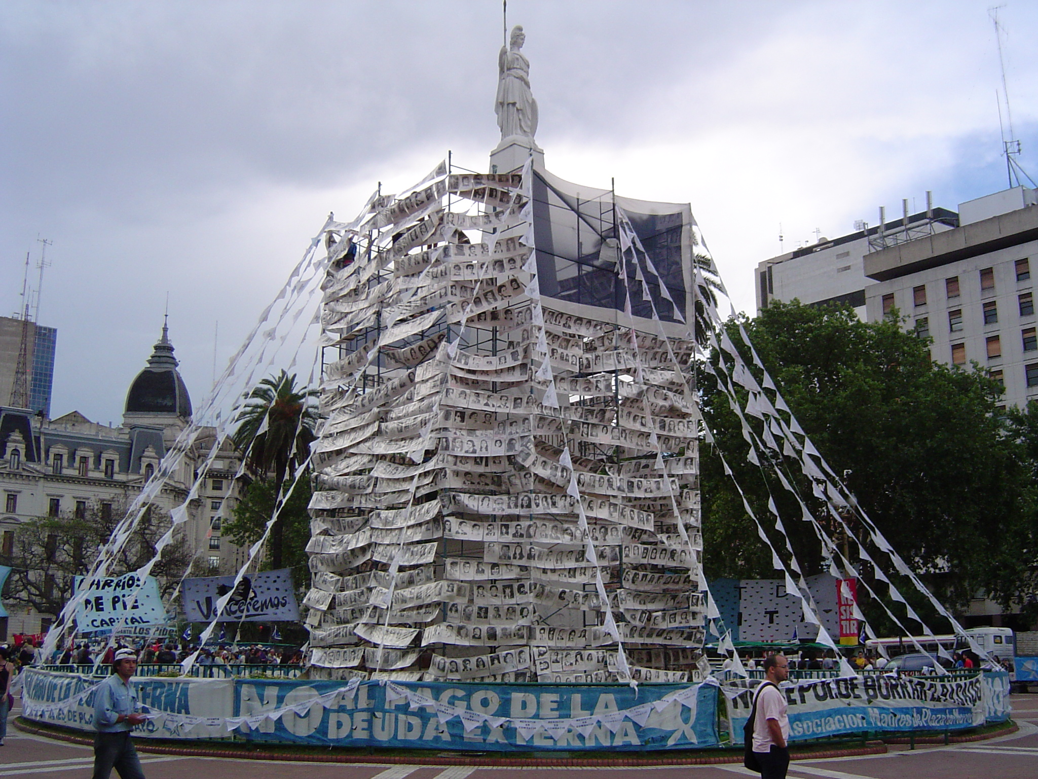 Pirámide de Mayo in Buenos Airea covered with photos of the desaparecidos, along with banners to protest against the payment of Argentina's external debt.